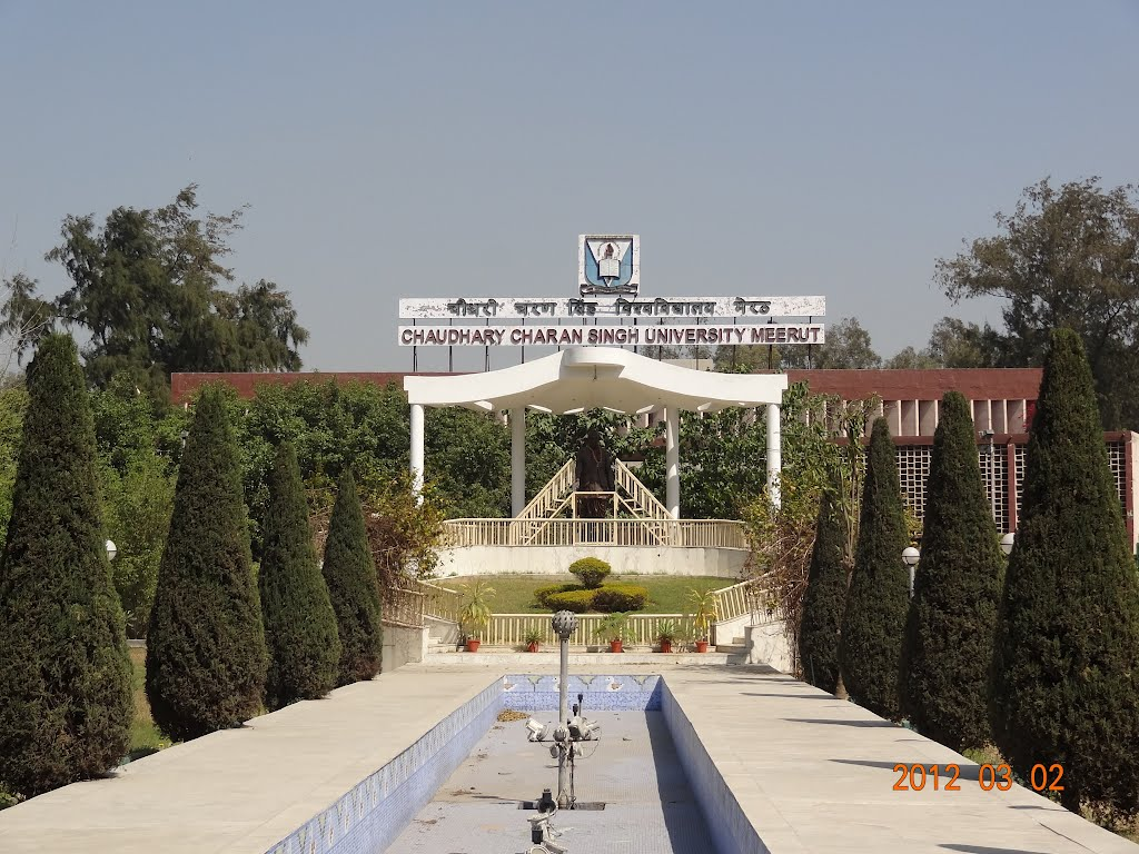 Administrative Block Of CCS University,Meerut